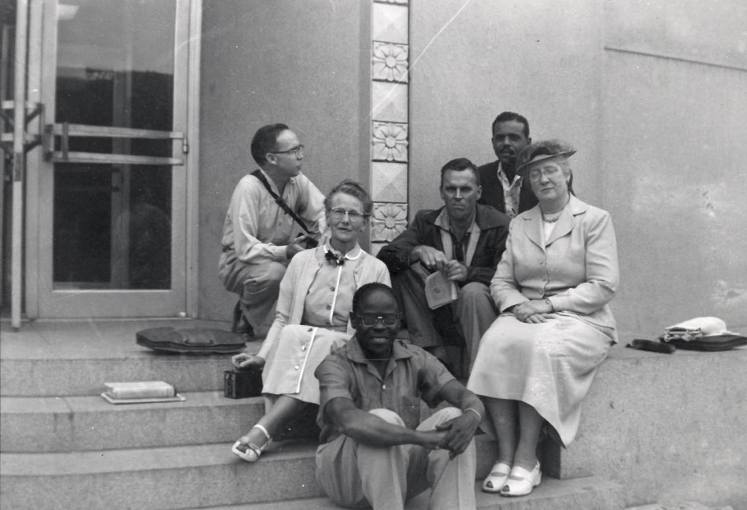 From archives: "English professor Helen C. White poses outside Memorial Library with her creative writing class from the summer school of 1954." Local identifier: UW.uwar04887.bib